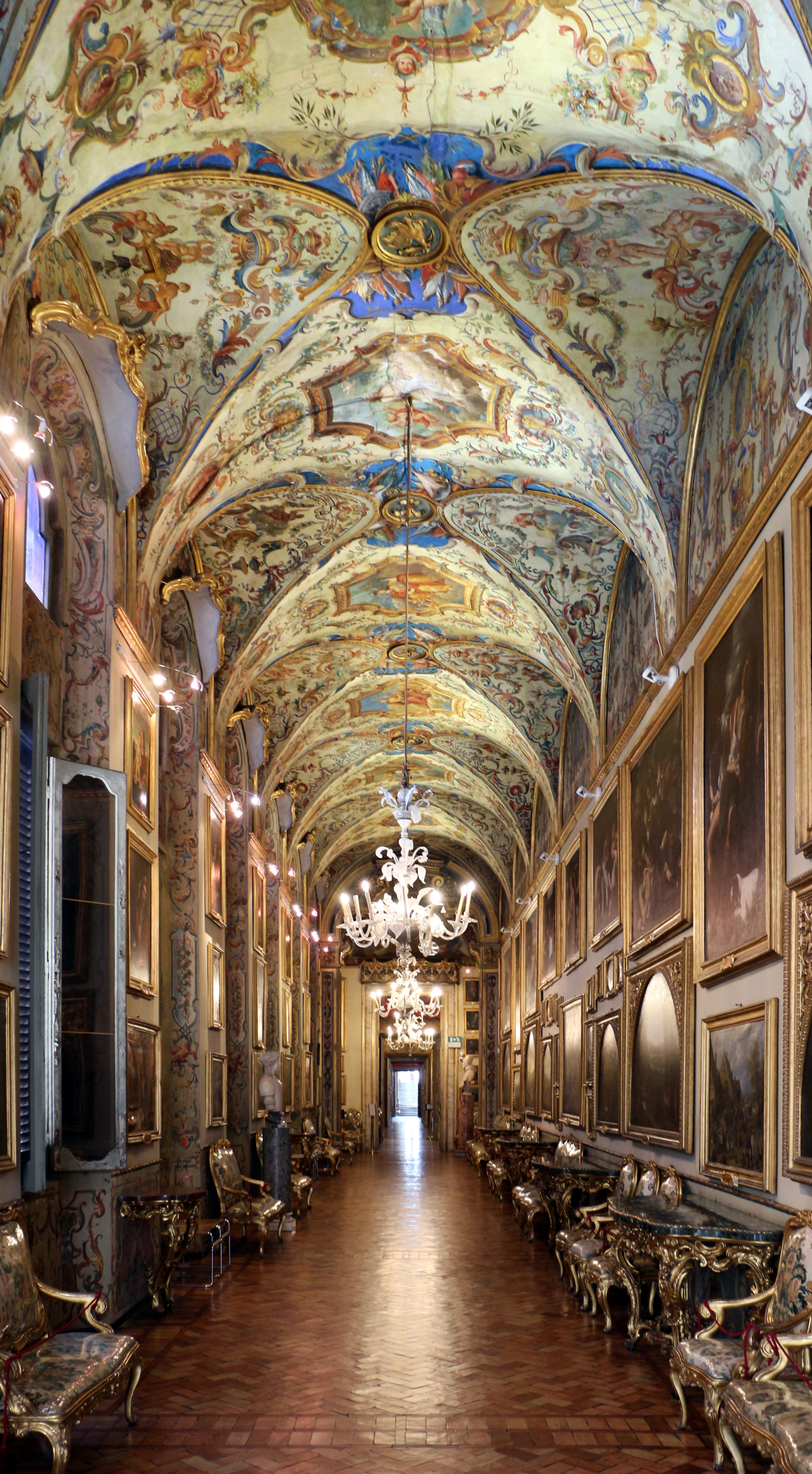 Palazzo Doria Pamphilj (Rome) - Interiors